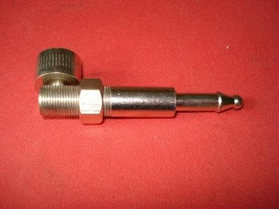 A Turbine